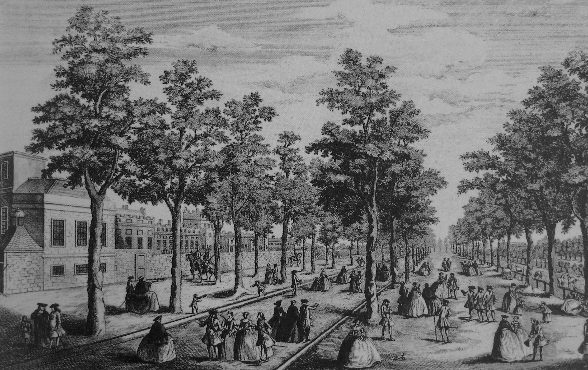 "The Mall" in London/UK with Westminster Abbey in the distance